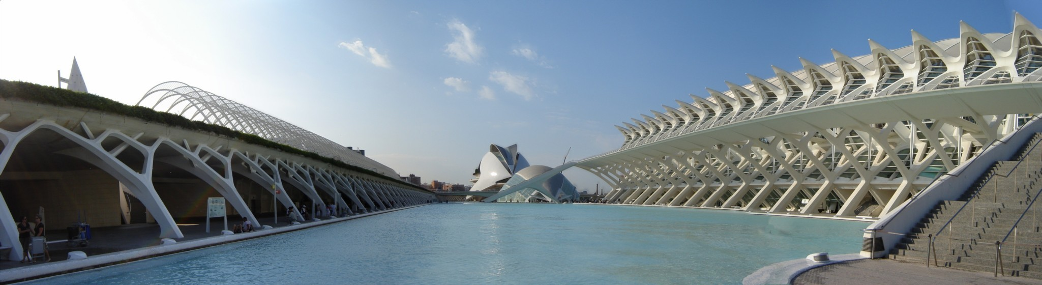 Panorama of City of Arts and Science